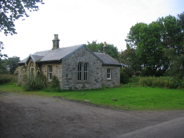 The Gardeners Cottage at Achvarasdal A view looking to the west towards the Gardeners Cottage at Achvarasdal.